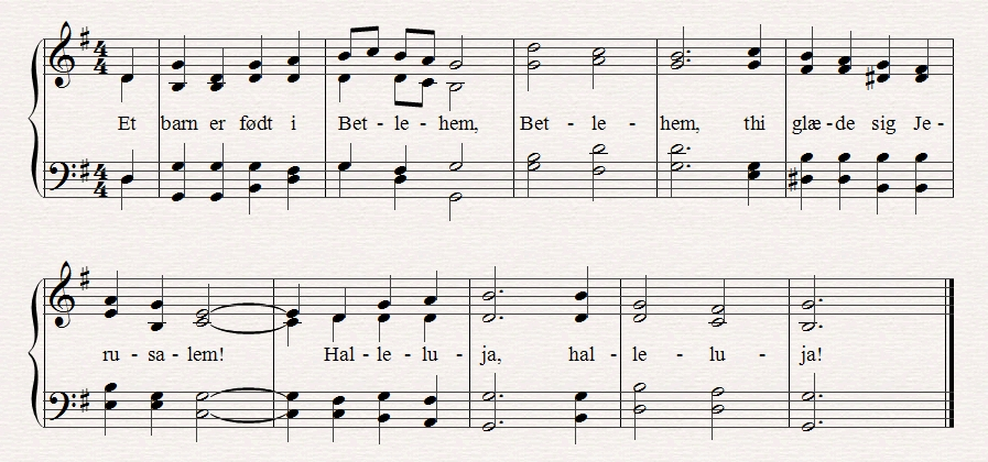 Tune and first stanza of the Danish hymn 'Et barn er født i Betlehem'. Lyrics by N. F. S. Grundtvig (1820) and music by A. P. Berggreen (1849). The file is made with the program Sibelius 6.